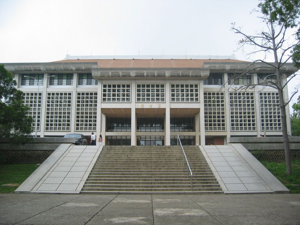 Tunghai University Library, Xitun District, Taichung City, Taiwan